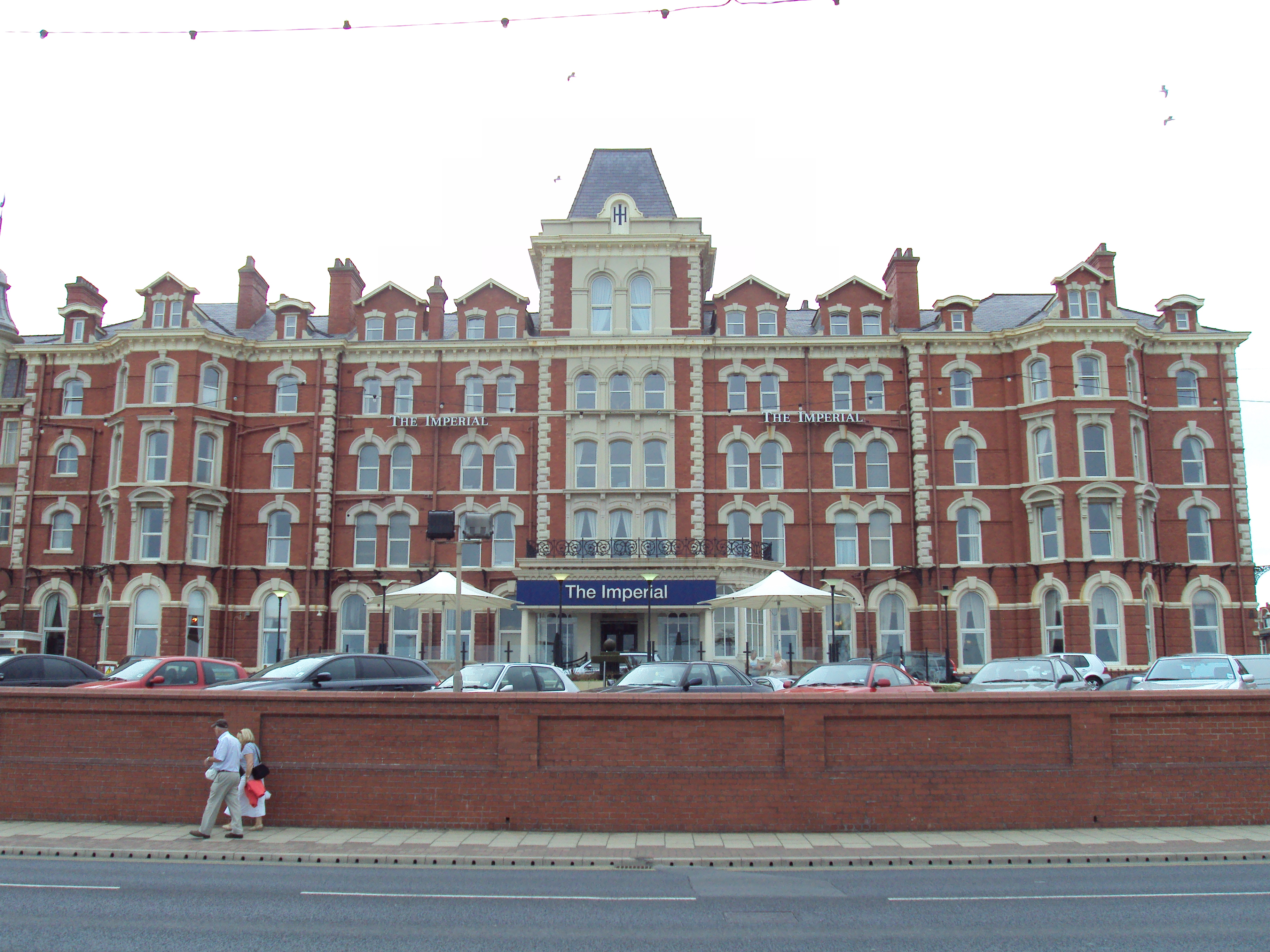 The Imperial Hotel, North Promenade, Blackpool, Lancashire, England.